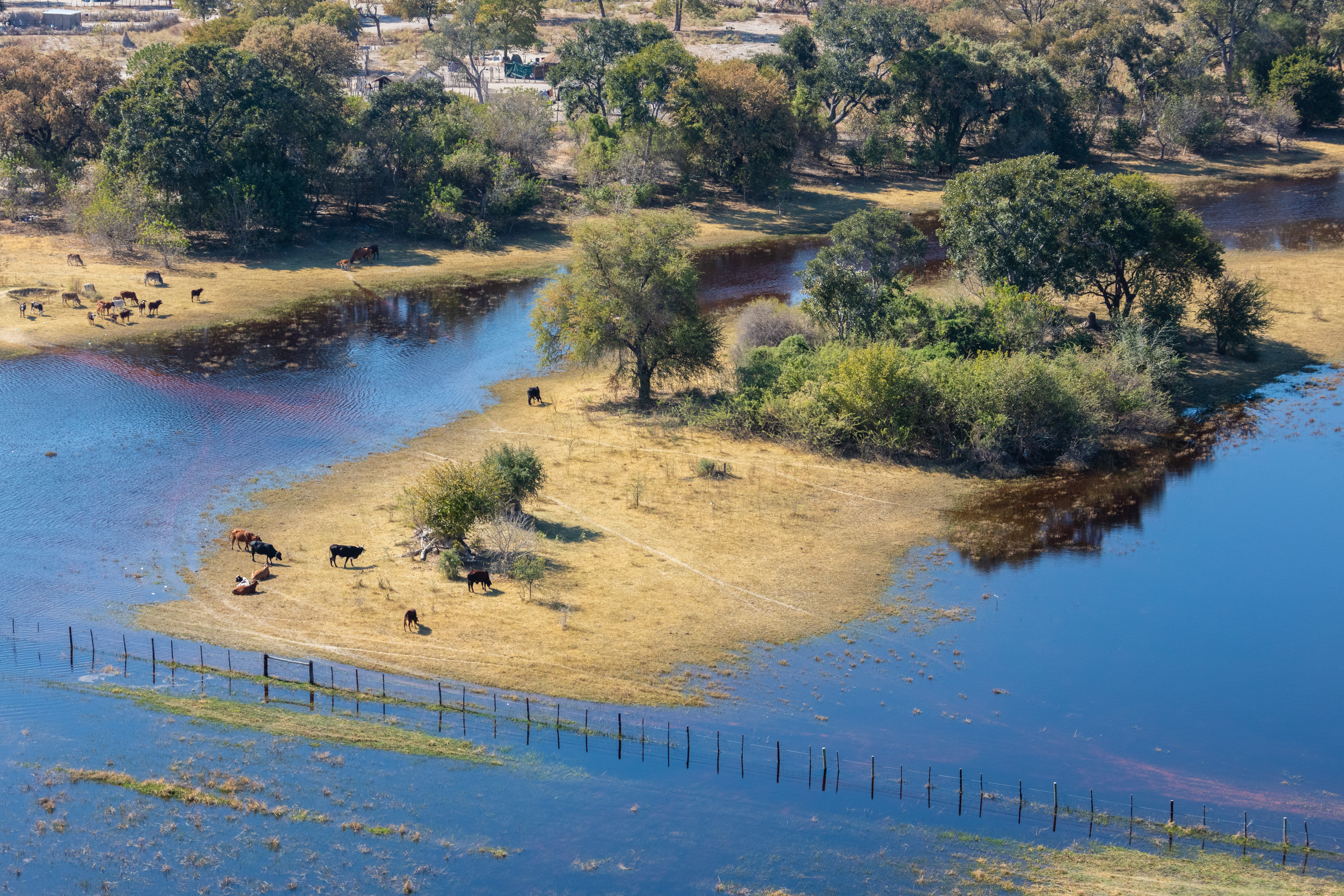 Aerial view of Okavango Delta, Botswana